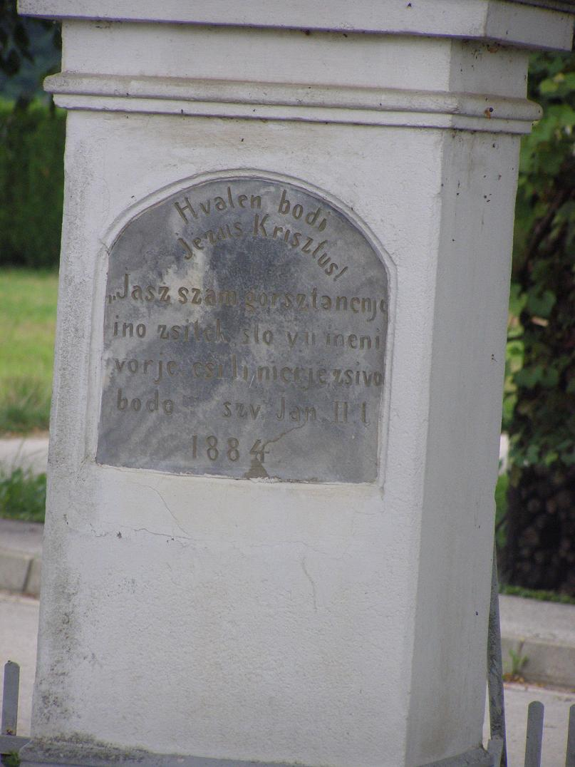 Prekmurian (prekmurščina) sign in a cross (1) in Noršinci, Prekmurje, from the New Testament (Jn 11,25) (1)